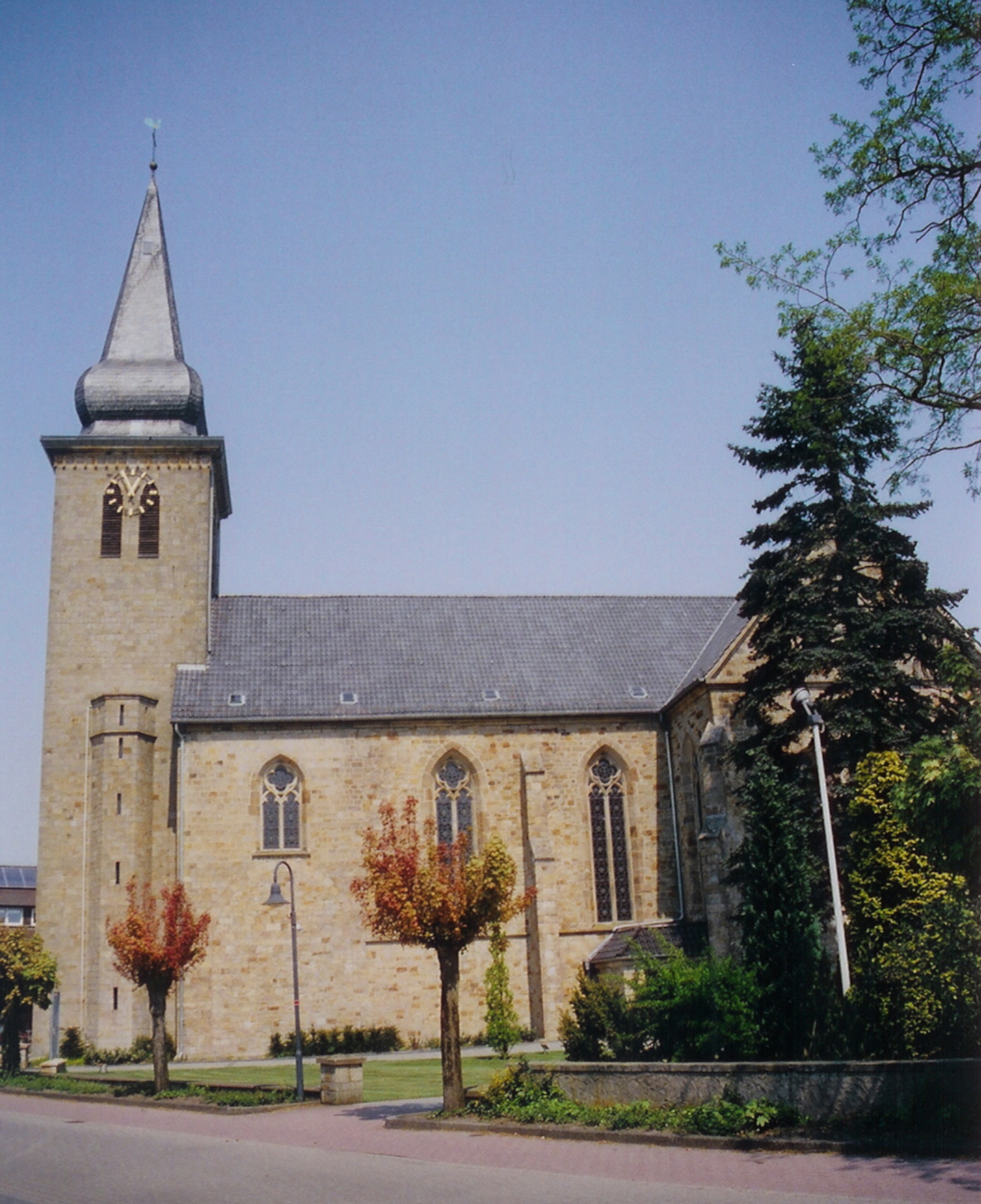 Roman Catholic St. Philippus und Jacobus Church in Recke-Steinbeck, Kreis Steinfurt, North Rhine-Westphalia, Germany.